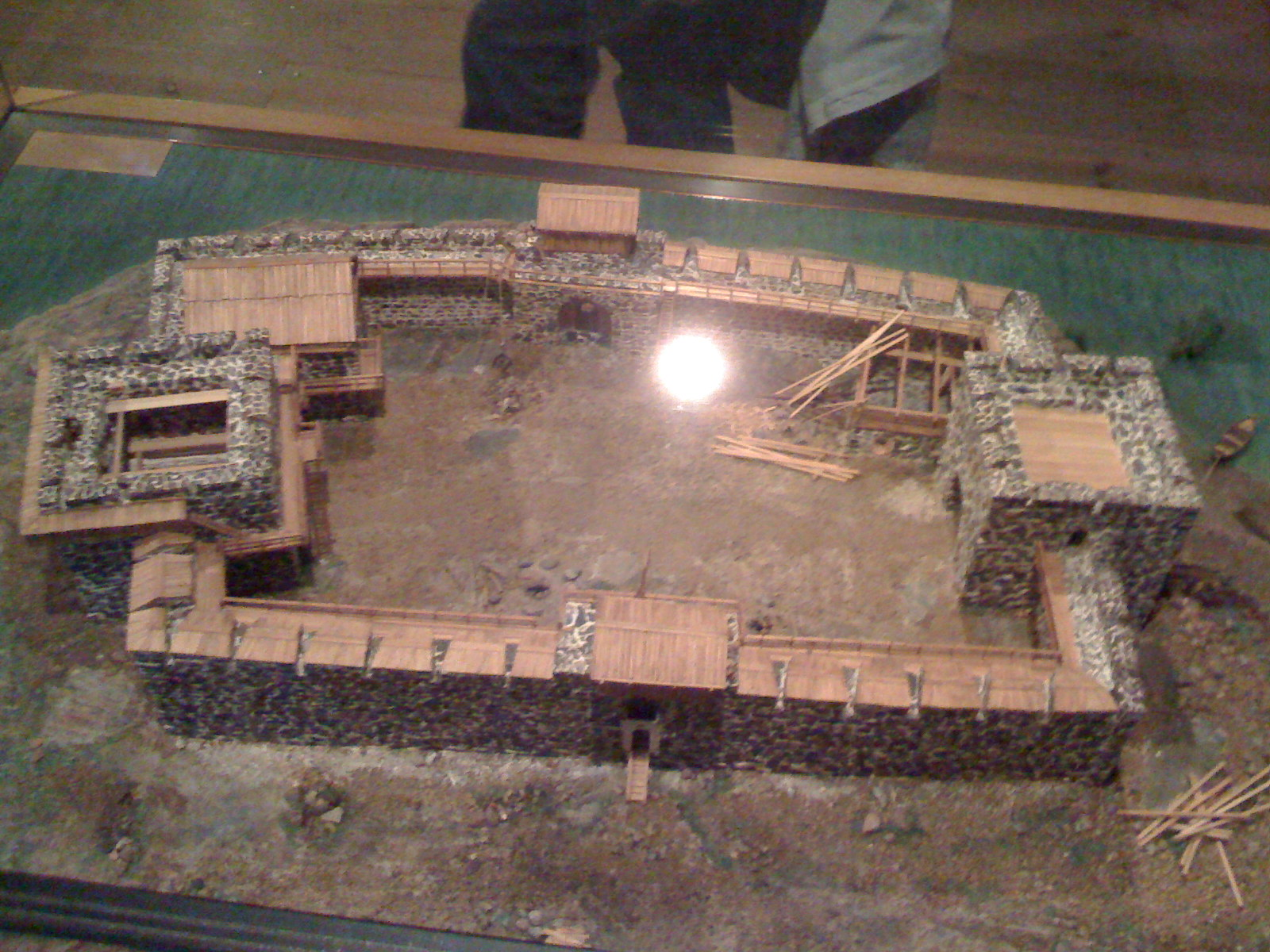 Turku Castle on its early stages